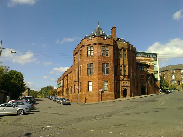 The corner of Gilbert Street and Yorkhill Street, Glasgow